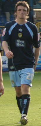 Jonathan Douglas. Image cropped from original at flickr.